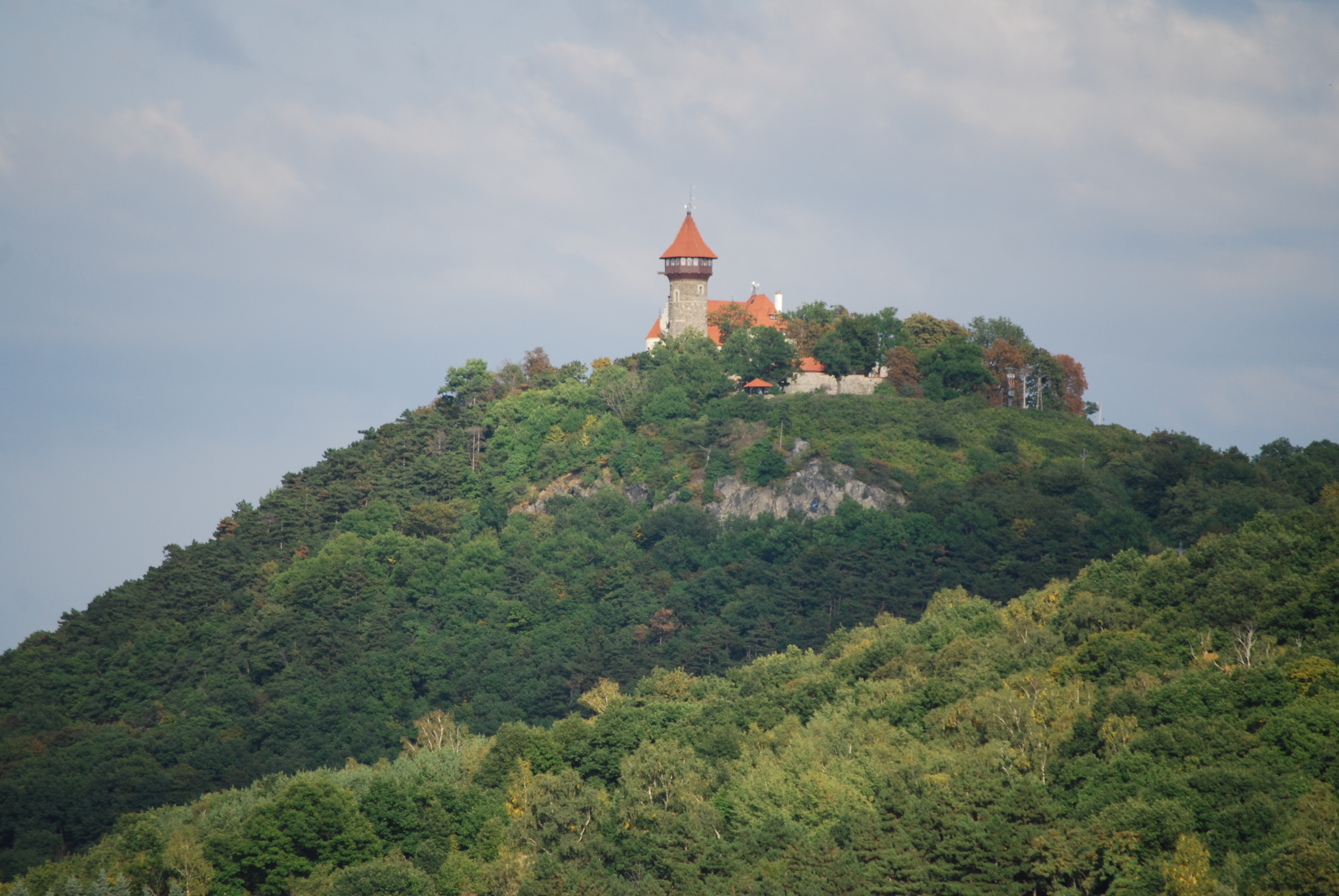 Hněvín Castle